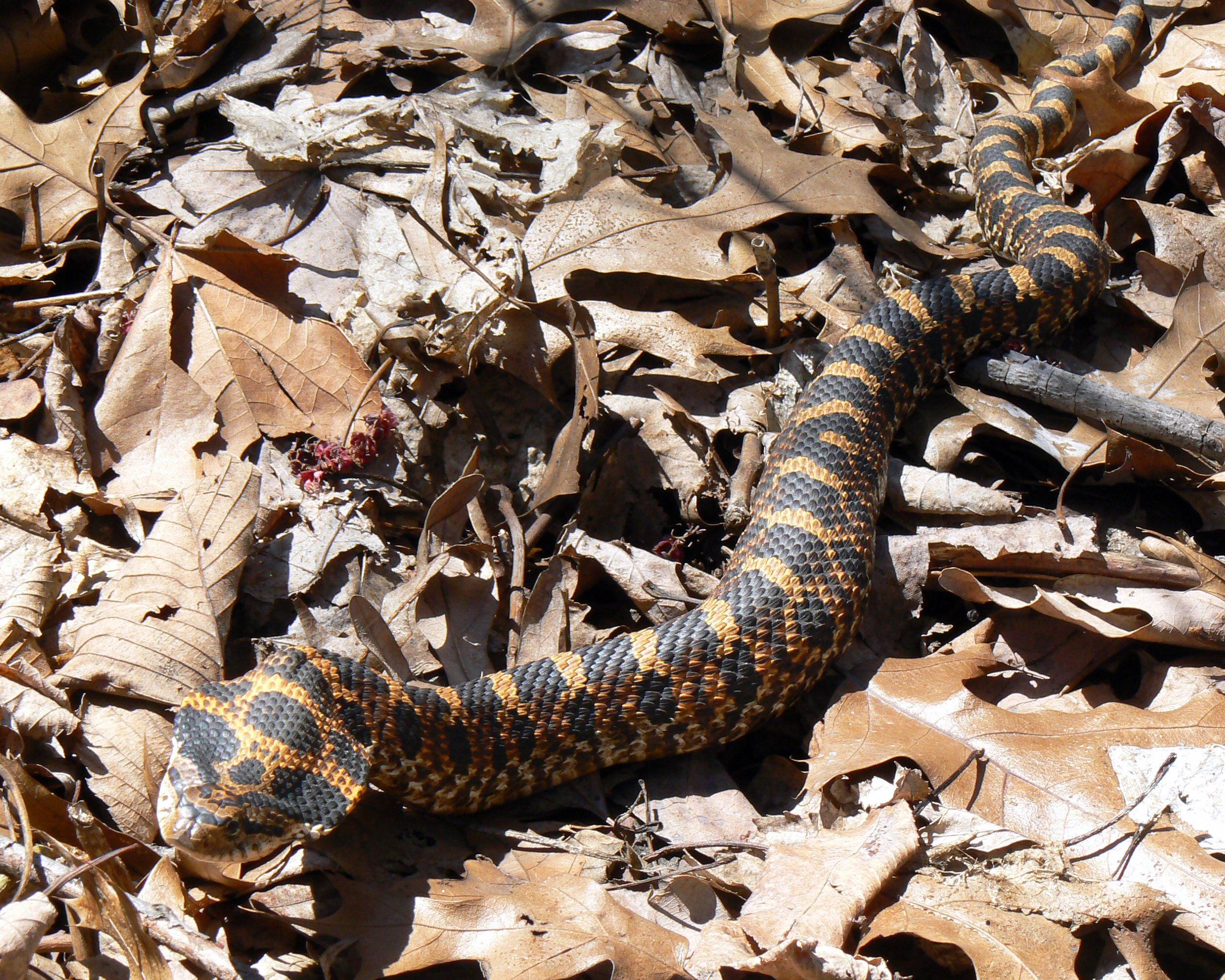 Heterodon platirhinos Here's the full view of the intimidating Eastern hognose snake. He's got a nice hood there, and he was hissing too. Found just off the trail at Wildwood Metropark in Toledo, Ohio.